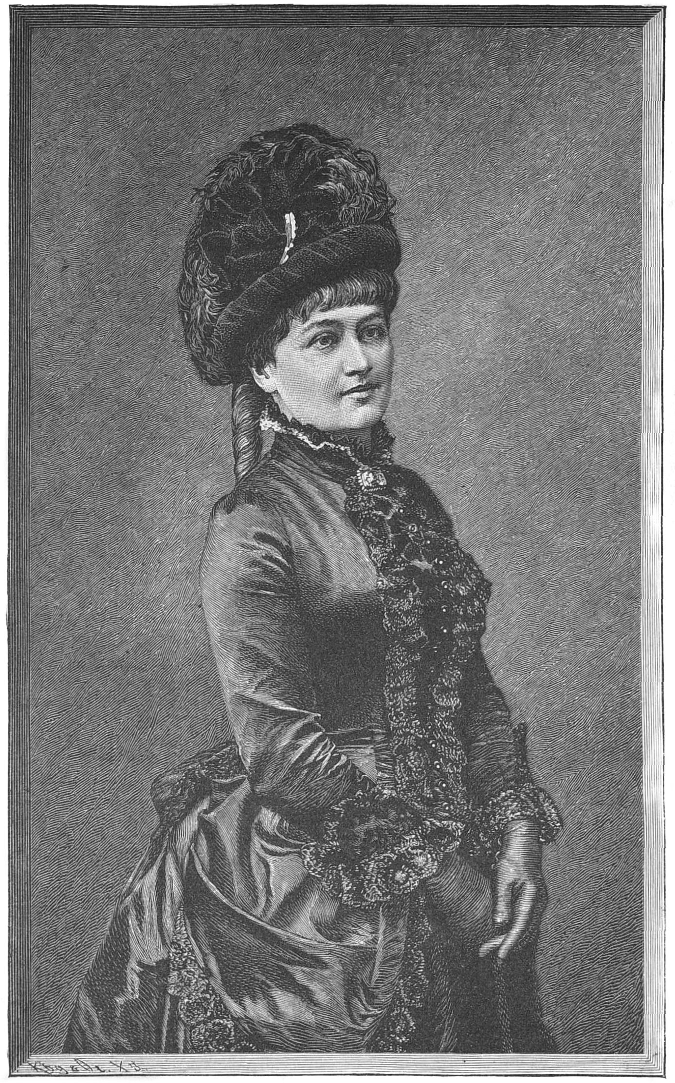 caption: "Stefanie Keyser.Nach einer Photographie von C. Festge, Hofphotograph in Erfurt."